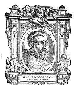 Illustratio from "Le Vite" by Giorgio Vasari, edition of 1568. For the artist portrayed see filename